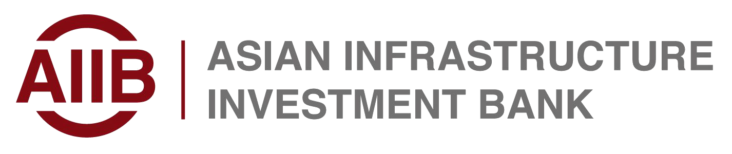 Asian Infrastructure Investment Bank logo, cleaned up from File:AIIB logo.jpeg